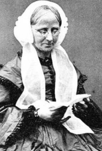 An older white woman seated, wearing a white bonnet with long wide ties; she has grey hair parted center, and is wearing glasses as she looks down into a small book.